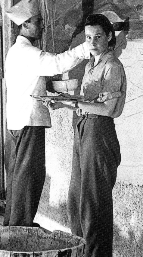 Photograph of the Finnish painter Helena Toivola (1909–2002).